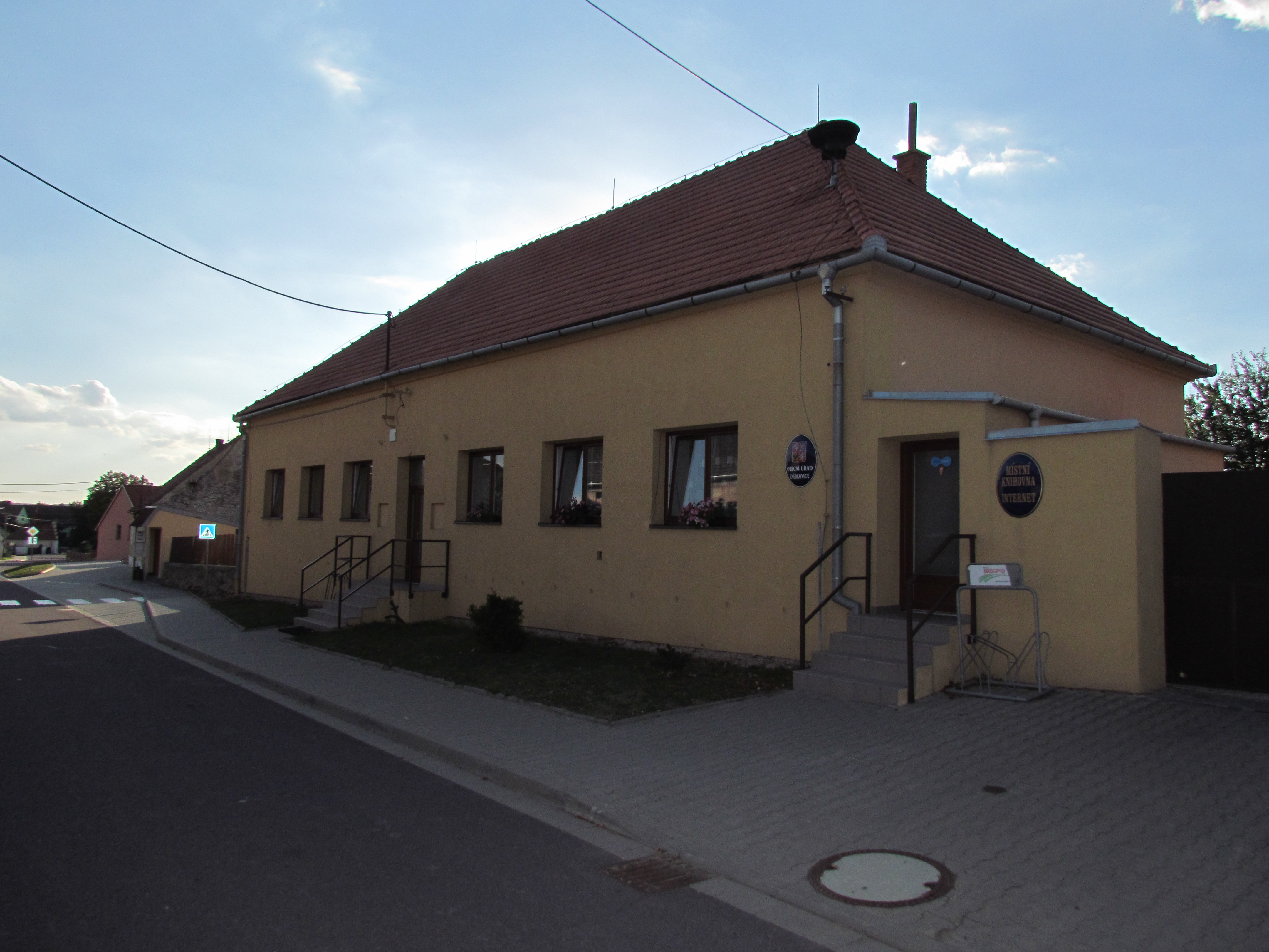 Municipal offices in Zvěrkovice, Třebíč District.